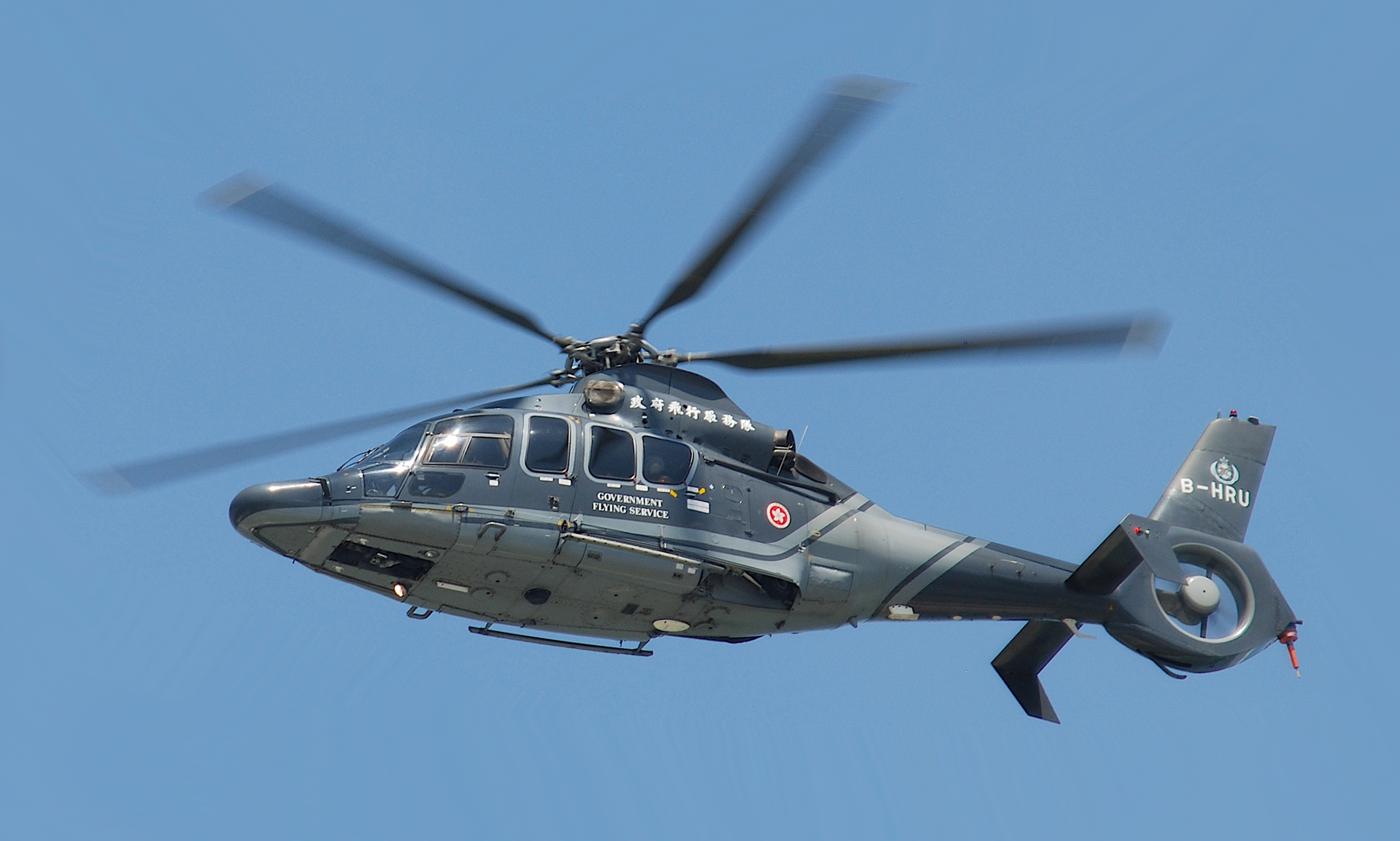 Hong Kong Government Flying Service Eurocopter EC-155B-1; B-HRU@HKG;04.08.2011